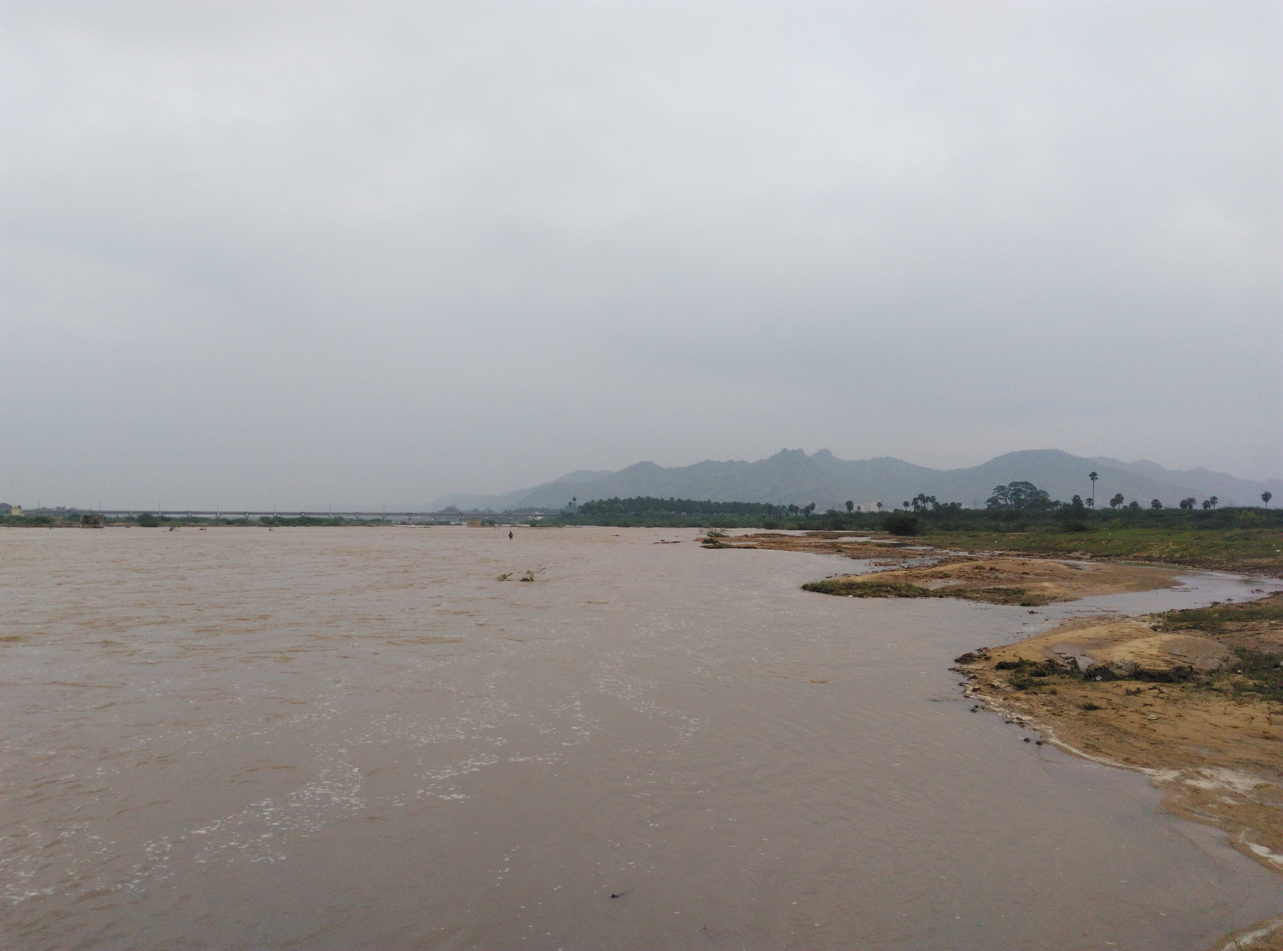 Palar river is one of non-perennial river flowing over the northern parts of Tamil nadu and ends into Bay of Bengal. The river is mostly dry and the water flows only once in many years. The picture was taken during Nov 2015 when water flowed in it after almost 10years in Vellore district of Tamilnadu.